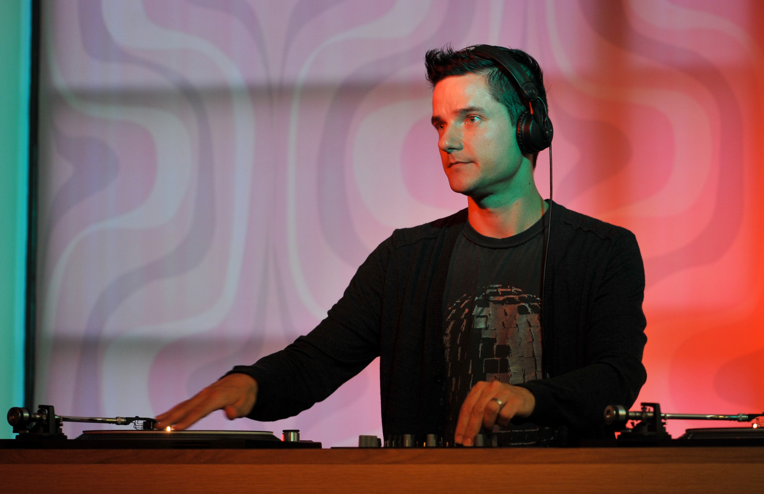 DJ Orkidea, Finnish DJ, Library 10, Helsinki, August 2011.